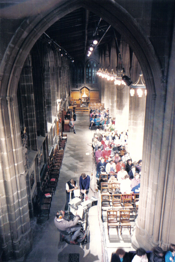 Recording Songs of Praise The BBC recording Songs of Praise in St. Mary's Church, High Pavement, Nottingham ca. 1988